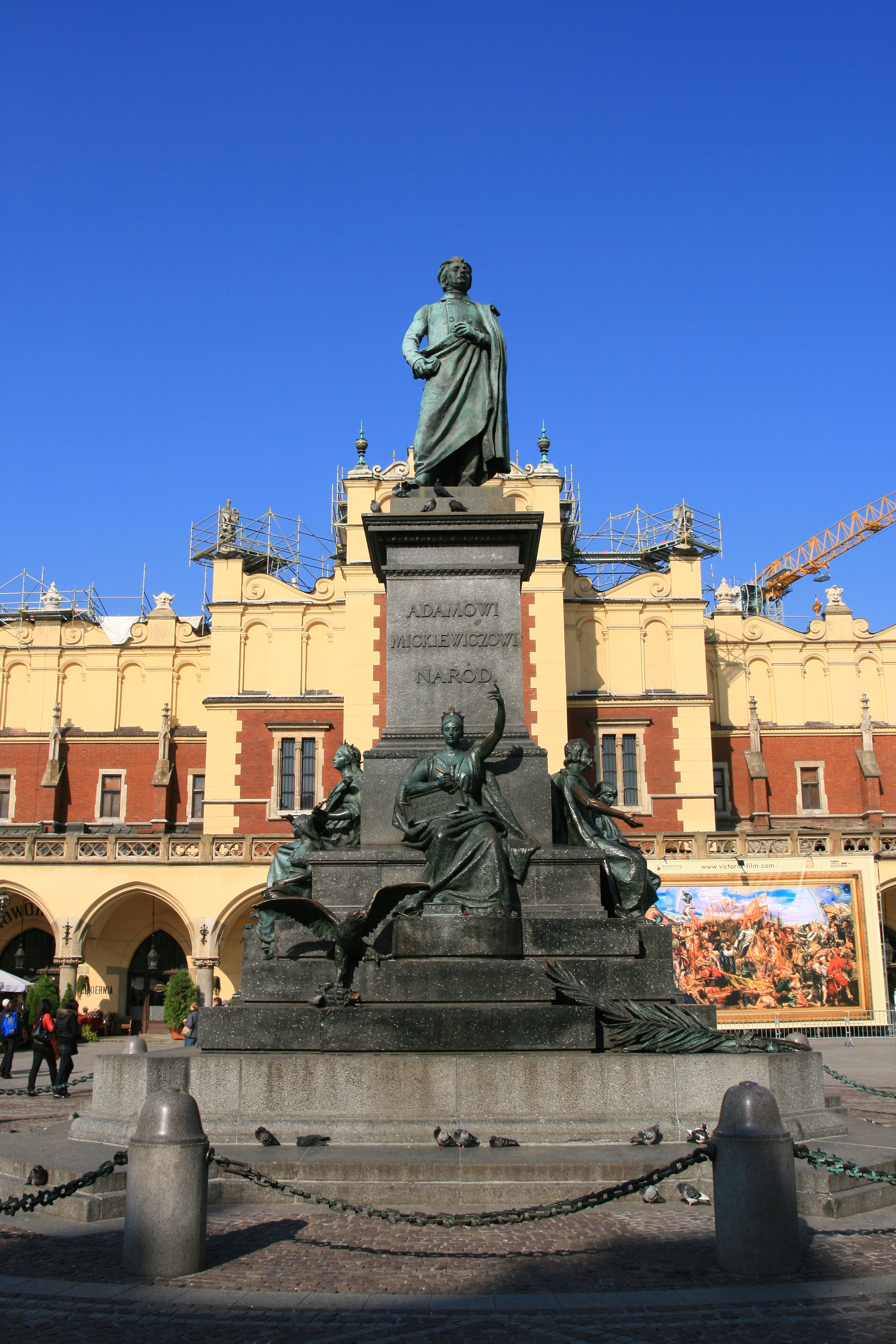 Adam Mickiewicz Monument in Kraków (Poland).